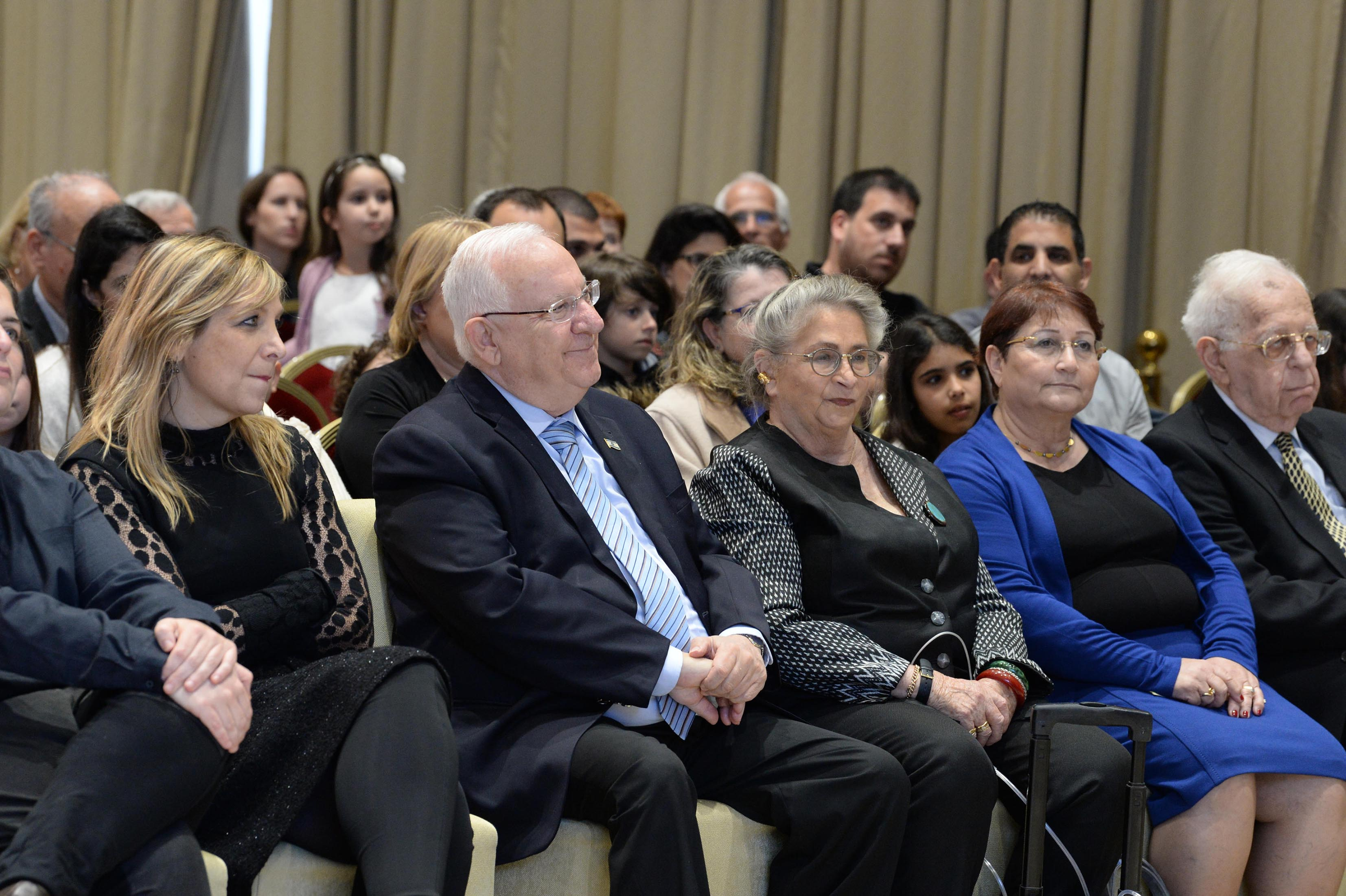 the President of Israel, Reuven Rivlin, grants the President's scholarship for research to ten outstanding doctoral and doctoral students from the fields of social sciences and humanities the President's scholarship for research. Wednesday, February 14, 2018. Photo Credit: Mark Neyman / GPO.